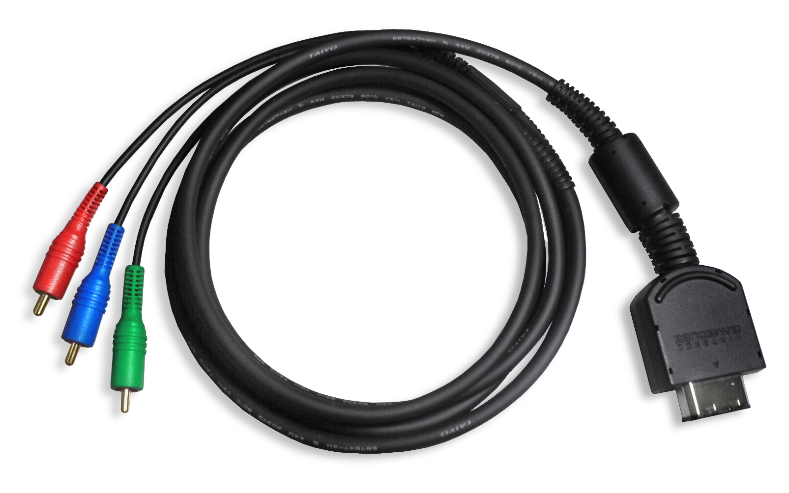 Component (YPbPr) video cable for the Nintendo GameCube